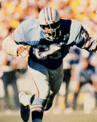 Houston Oilers defensive end Elvin Bethea in a defensive play against the San Diego Chargers in the 1979 AFC Divisional Playoff Game on December 29, 1979.